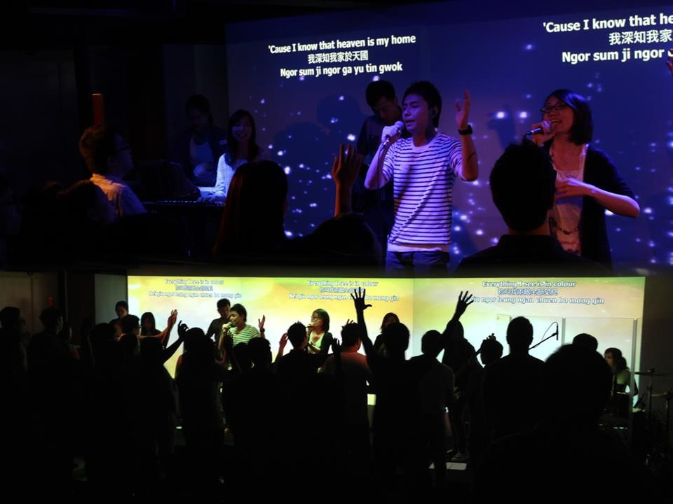 English/Cantonese Praise and Worship